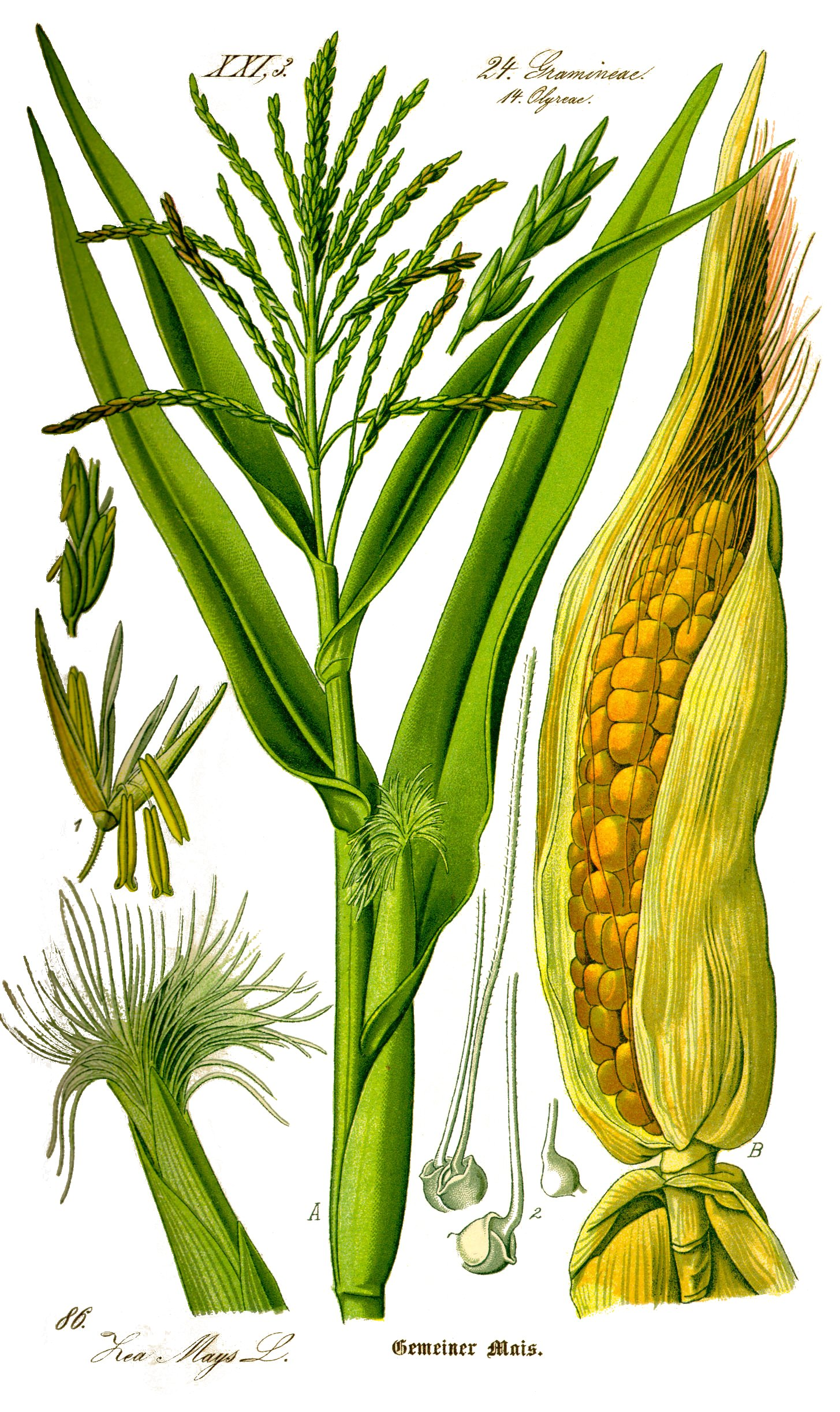 Name Zea mays Family Poaceae